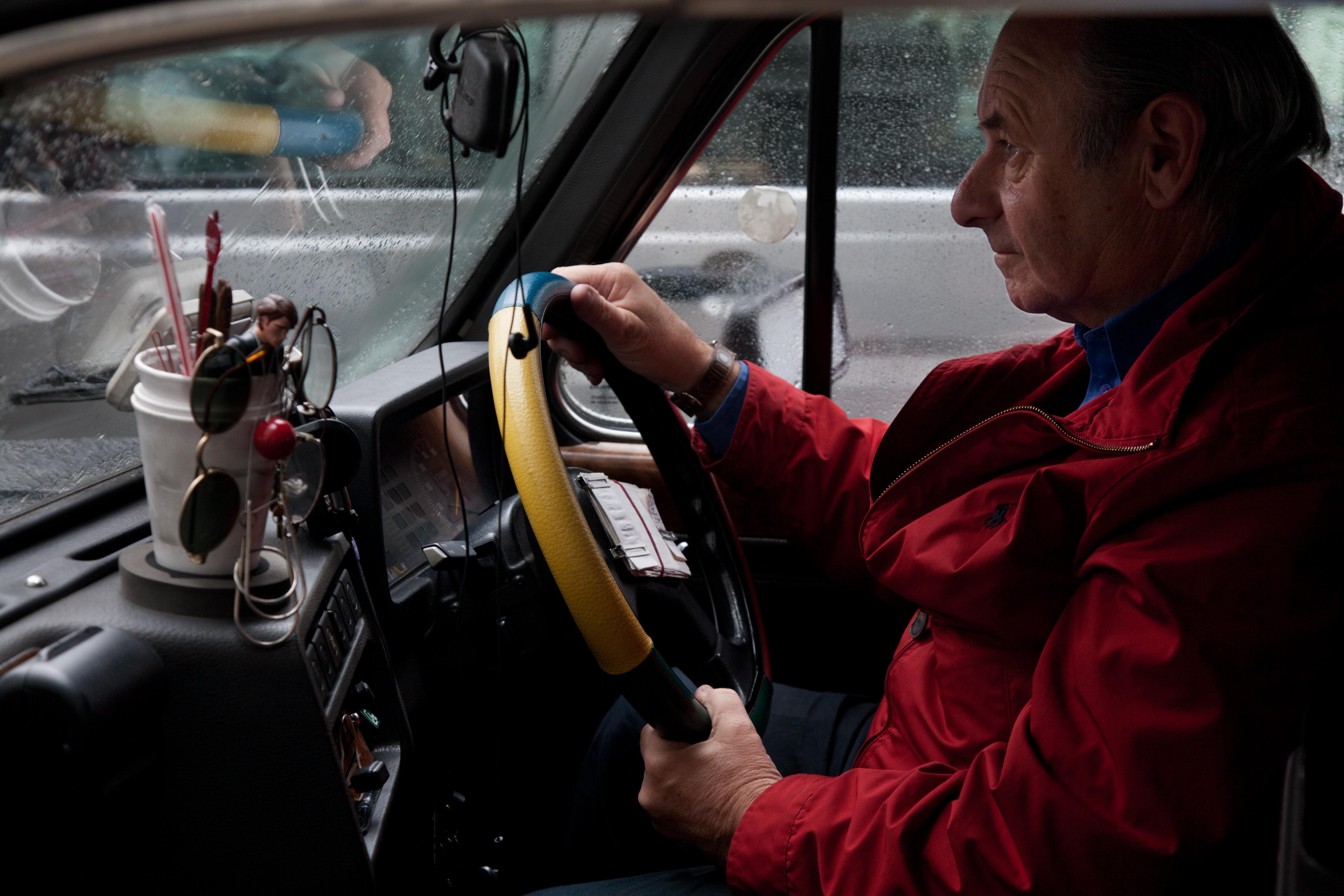 A London Cabbie. London, UK